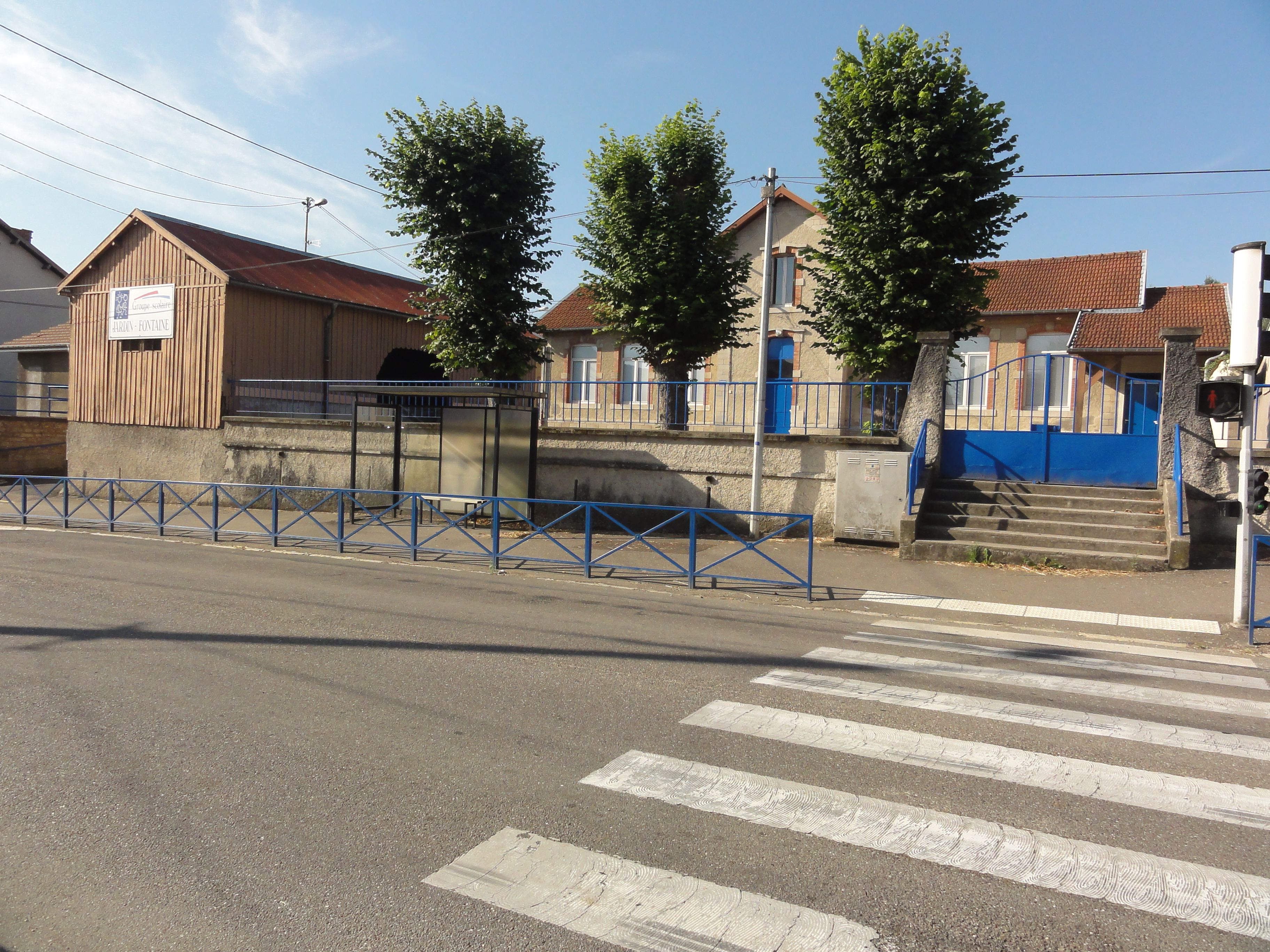 Thierville-sur-Meuse (Meuse) groupe scolaire Jardin-Fontaine